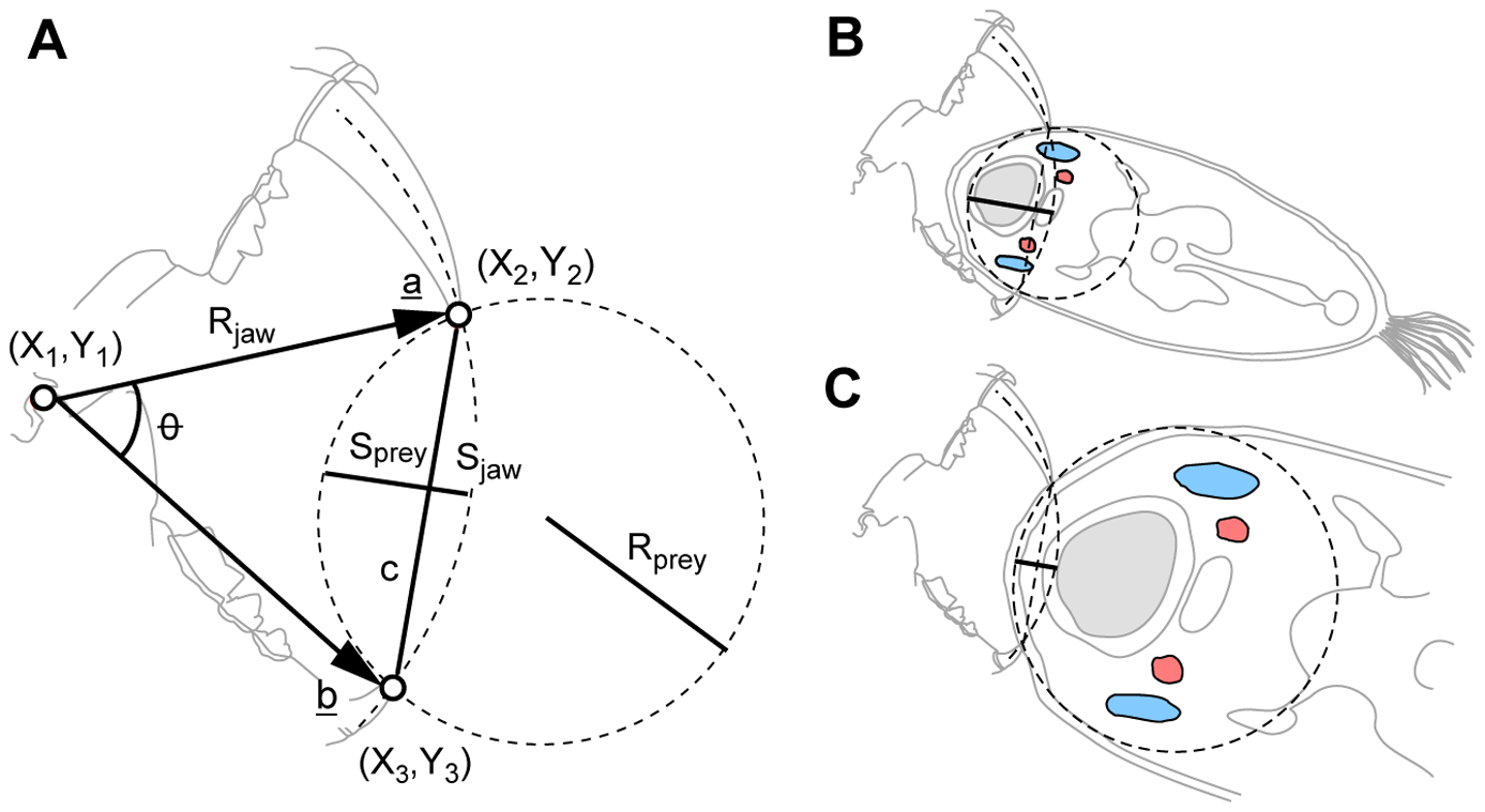 Maximum gape and neck bite of a sabertoothed cat. The outline of the prey modelled as a circle. In the canine clearance model bite is restricted by what can be fitted between the tips of the canines at maximum jaw extension. (a) Basic circle geometry determines the depth of the bite (h = Sprey+Sjaw) into a prey of radius (Rprey) for canine clearance (c) and jaw size (Rjaw). (b) Illustrating the geometry of biting into prey of different sizes - a sabretooth may deliver a fatal wound when biting the neck of the prey. (c) At twice the prey size the same sabretooth is capable of delivering a superficial bite only. Showing veins (blue), arteries (red), trachea (grey).